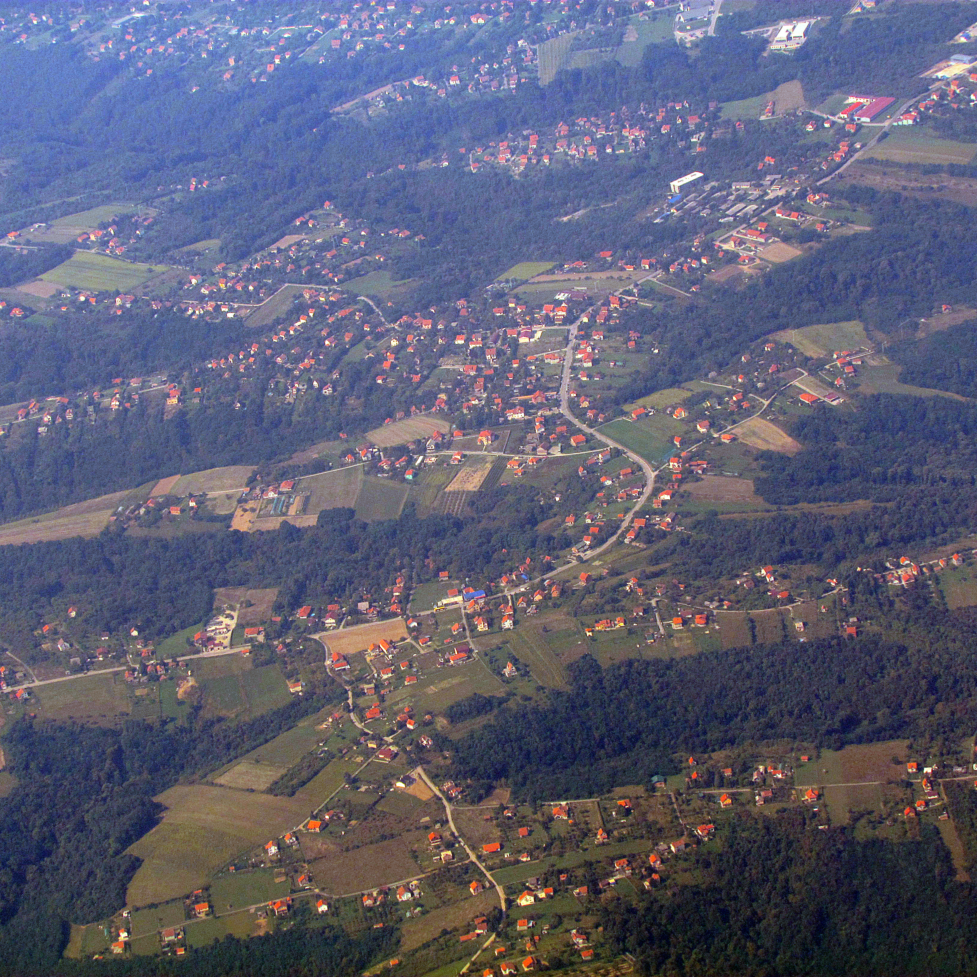 Lipovica (Belgrade suburb) from air